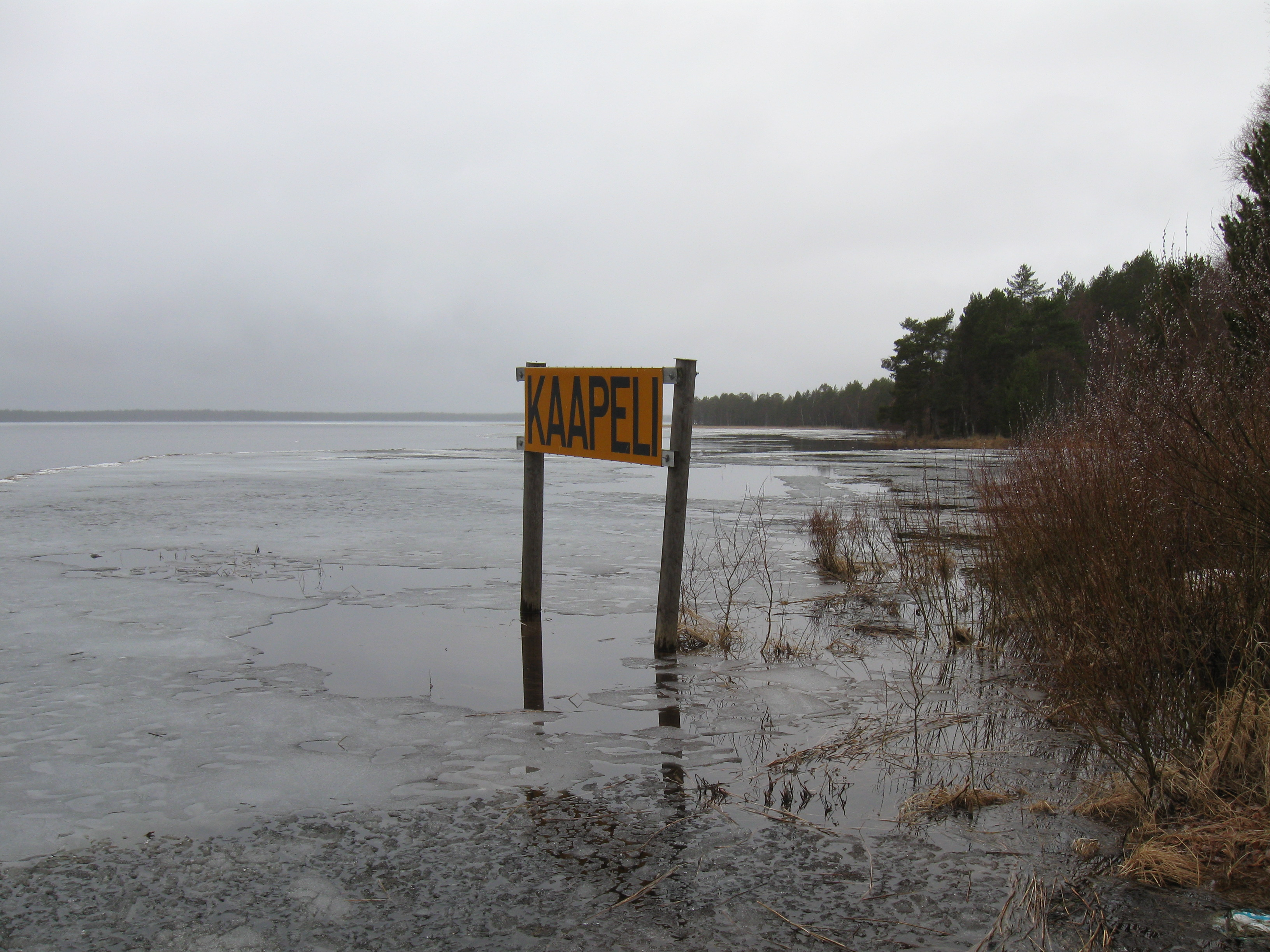 A warning sign for an underwater cable at the Otermajärvi lake in Vaala, Finland.